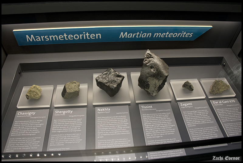 Martian meteorites מטאוריטים ממאדים Vienna Natural History Museum, Austria, 2014 Wien Naturhistorisches Museum, Osterreich, 2014 המוזיאון להיסטוריה של הטבע, וינה, אוסטריה, 2014 This image was created by Zachi Evenor צחי אבנור and is released under Creative Commons CC-BY license. When using this image credit it to Zachi Evenor (in Hebrew for use in Israel: צחי אבנור). Please avoid using these images in an abusive or offensive manner. Please link to the original image on Wikimedia Commons or Flickr if possible. For more free to use images visit Category:Photographs by Zachi Evenor. For non-free images visit Flickr: . Enjoy this image :)